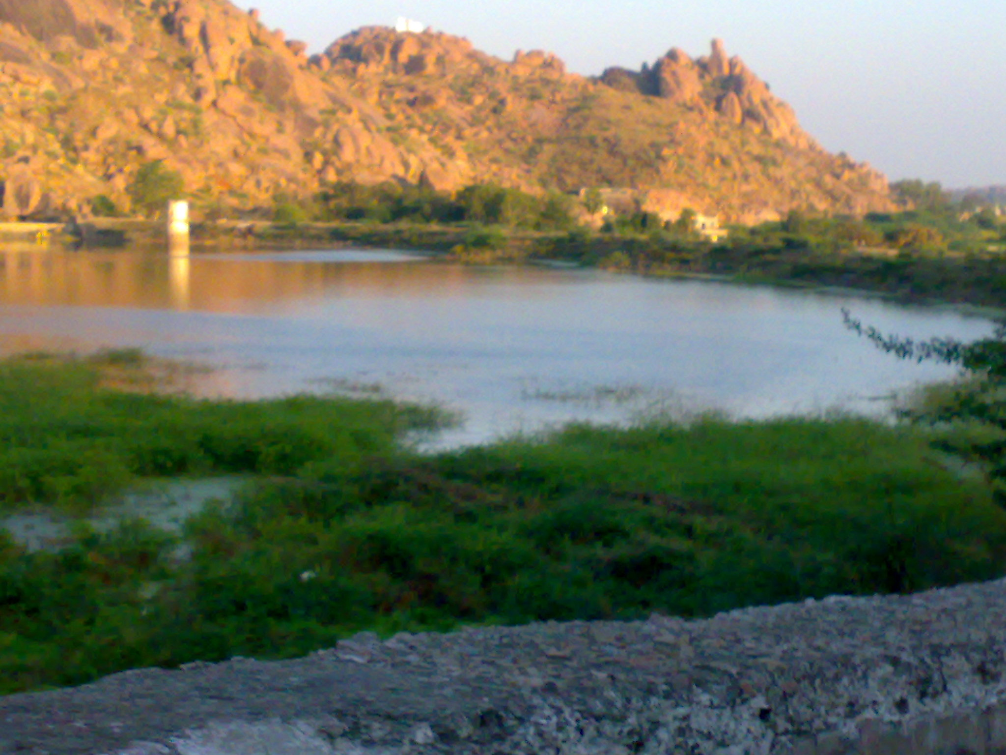 A famous water tank in Adoni town